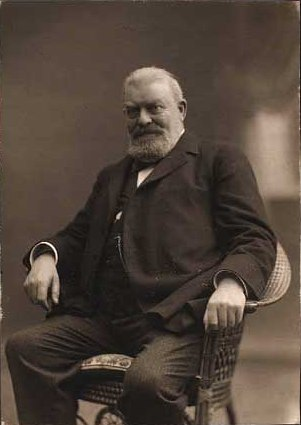 Danish industrialist, philanthropist, politician, MP Holger Petersen (1843-1917)